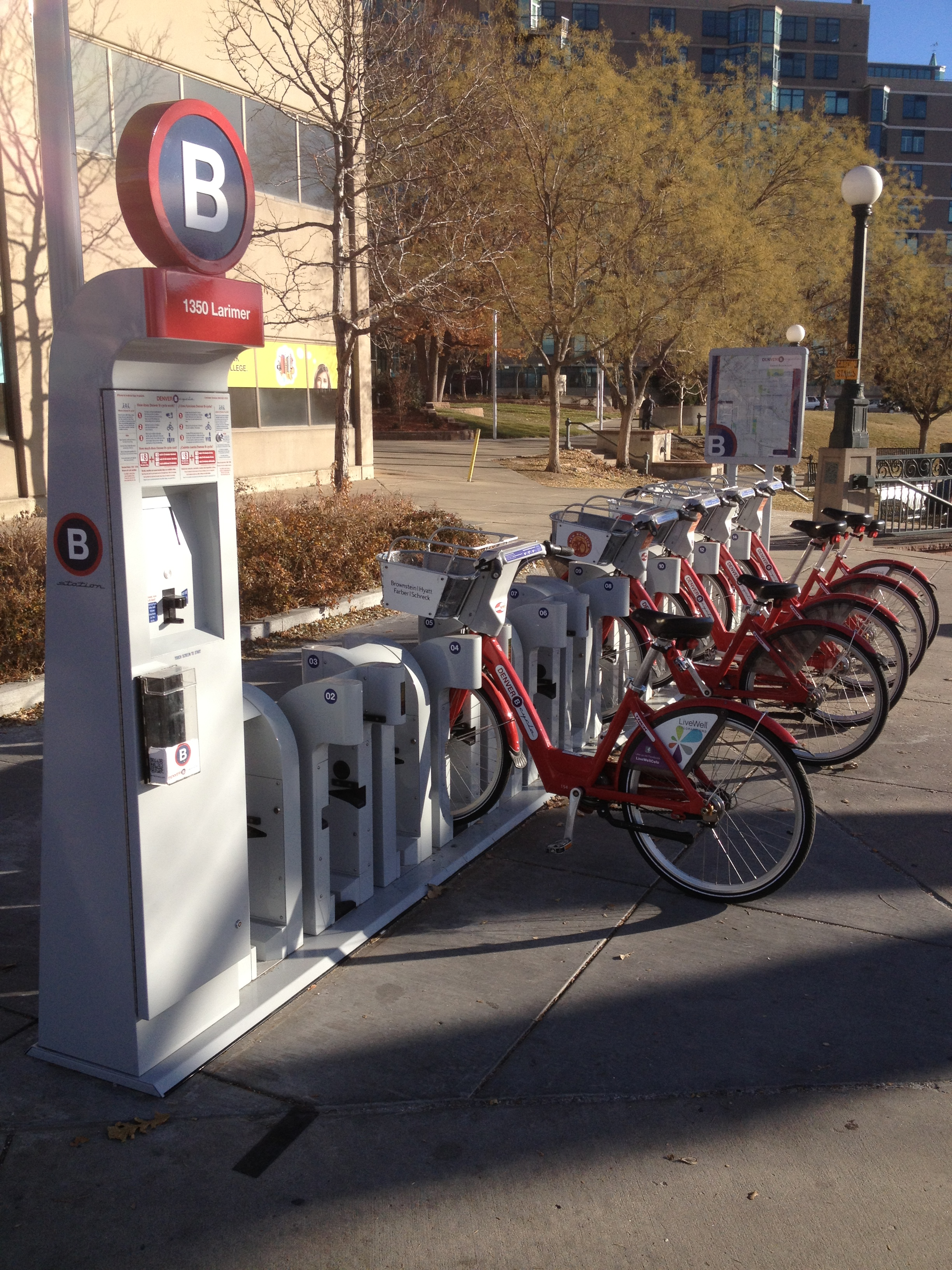 Denver B-Cycle station on 1350 Larimer Street.